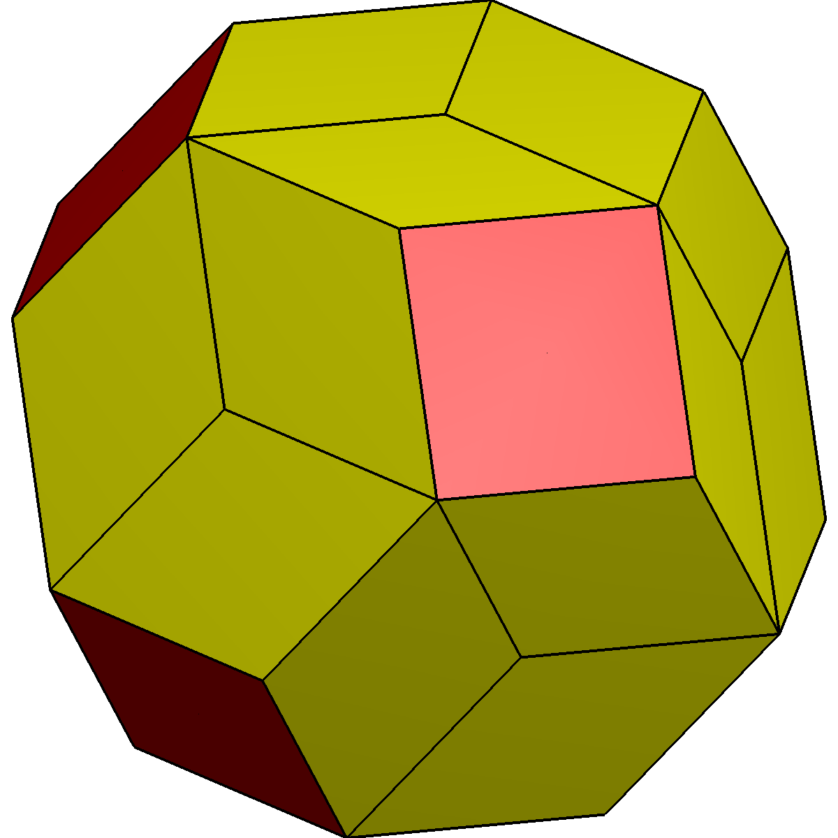 A topological rhombic triacontahedron (dual Icosidodecahedron) in a Truncated octahedron with hexagons divided into 3 rhombi